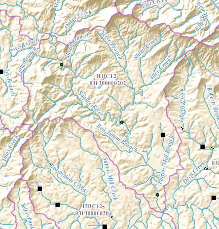 HUC 031300010202 - Shoal Creek-Upper Soque River. The Soque River bisects the sub-watershed from northwest to southeast, and is joined by Shoal Creek from the north.